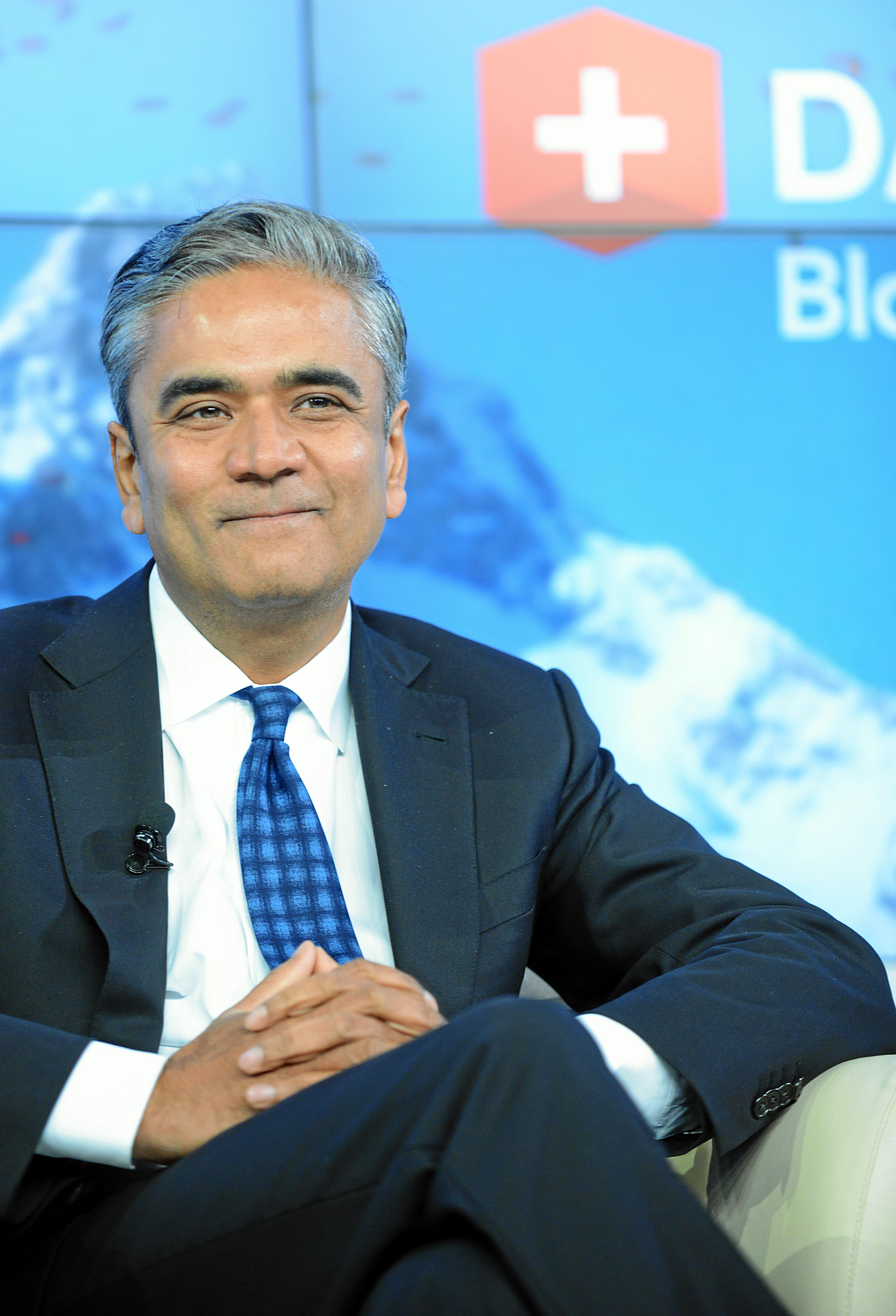 DAVOS/SWITZERLAND, 25JAN13 - Anshu Jain, Co-Chairman of the Management Board and the Group Executive Committee, Deutsche Bank, Germany; Co-Chair of the Governors for Financial Services for 2013 smiles during the session 'No Growth, Easy Money - The New Normal?' at the Annual Meeting 2013 of the World Economic Forum in Davos, Switzerland, January 25, 2013. Copyright by World Economic Forum Michael Wuertenberg